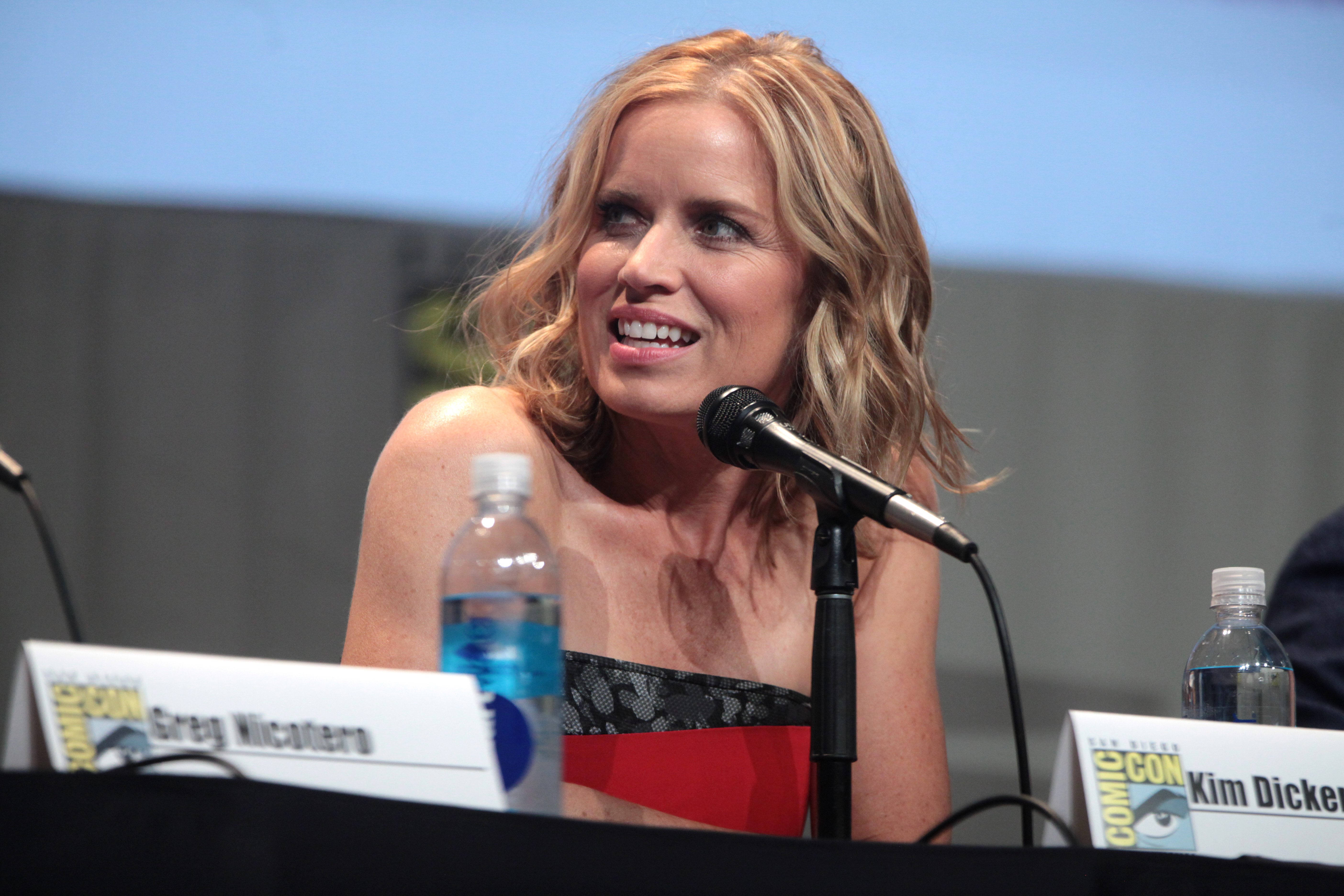 Kim Dickens speaking at the 2015 San Diego Comic Con International, for "Fear the Walking Dead", at the San Diego Convention Center in San Diego, California.